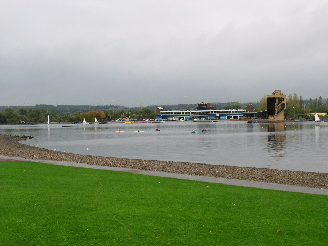 Strathclyde Loch watersports and visitor centre.